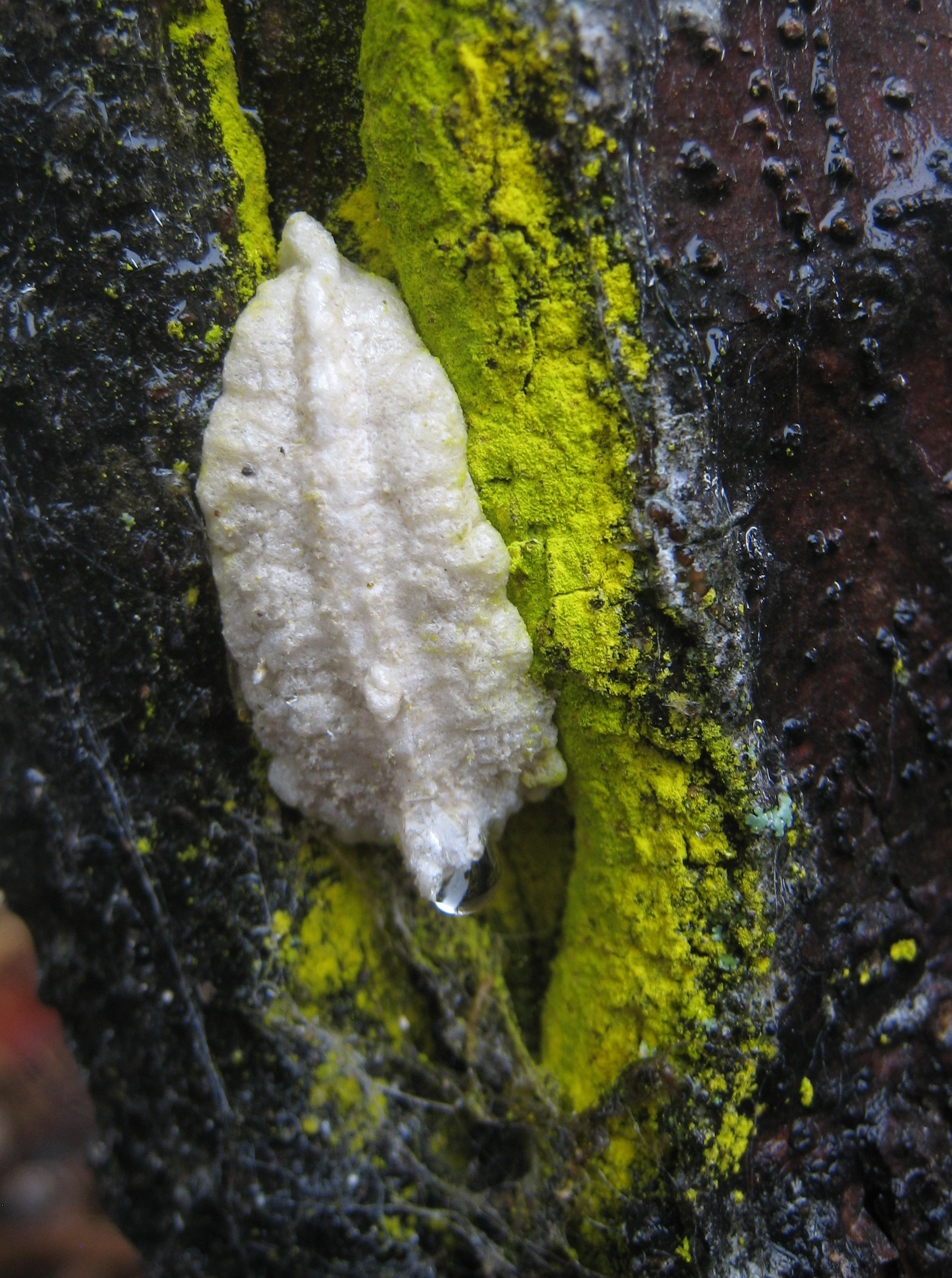 Egg case in a lichen-encrusted crack in a Pittosporum tree in Auckland, New Zealand. I believe the egg case is from the South African mantis Miomantis caffra. The lichen is probably Chrysothrix candelaris.[1]